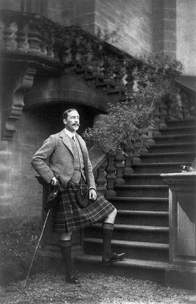 Simon Joseph Fraser, 14th Lord Lovat (1871 - 1933), a leading Roman Catholic aristocrat, landowner, soldier, politician and the 23rd Chief of Clan Fraser